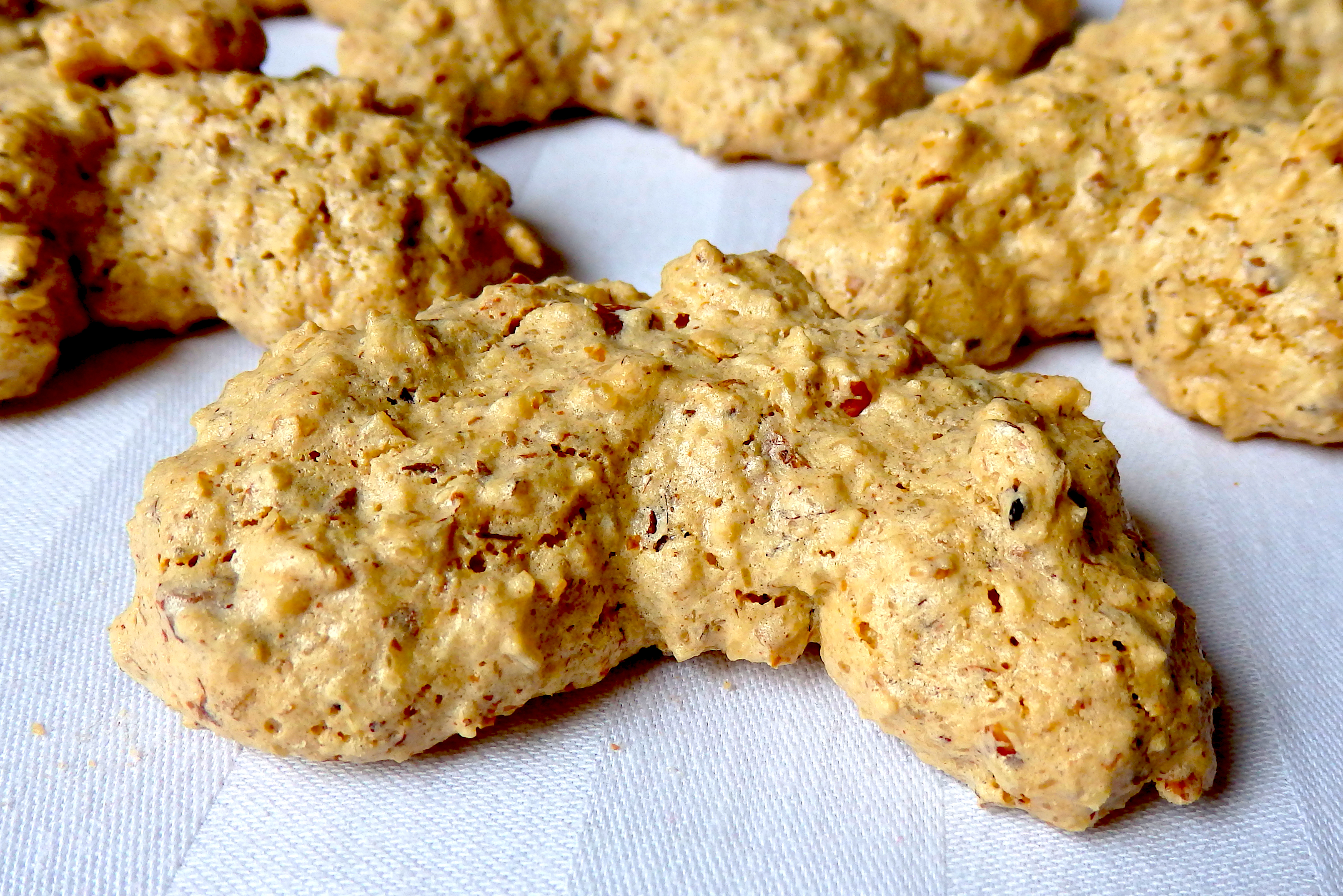 Serbian sweets orasnice.Српски (ћирилица): Ораснице.